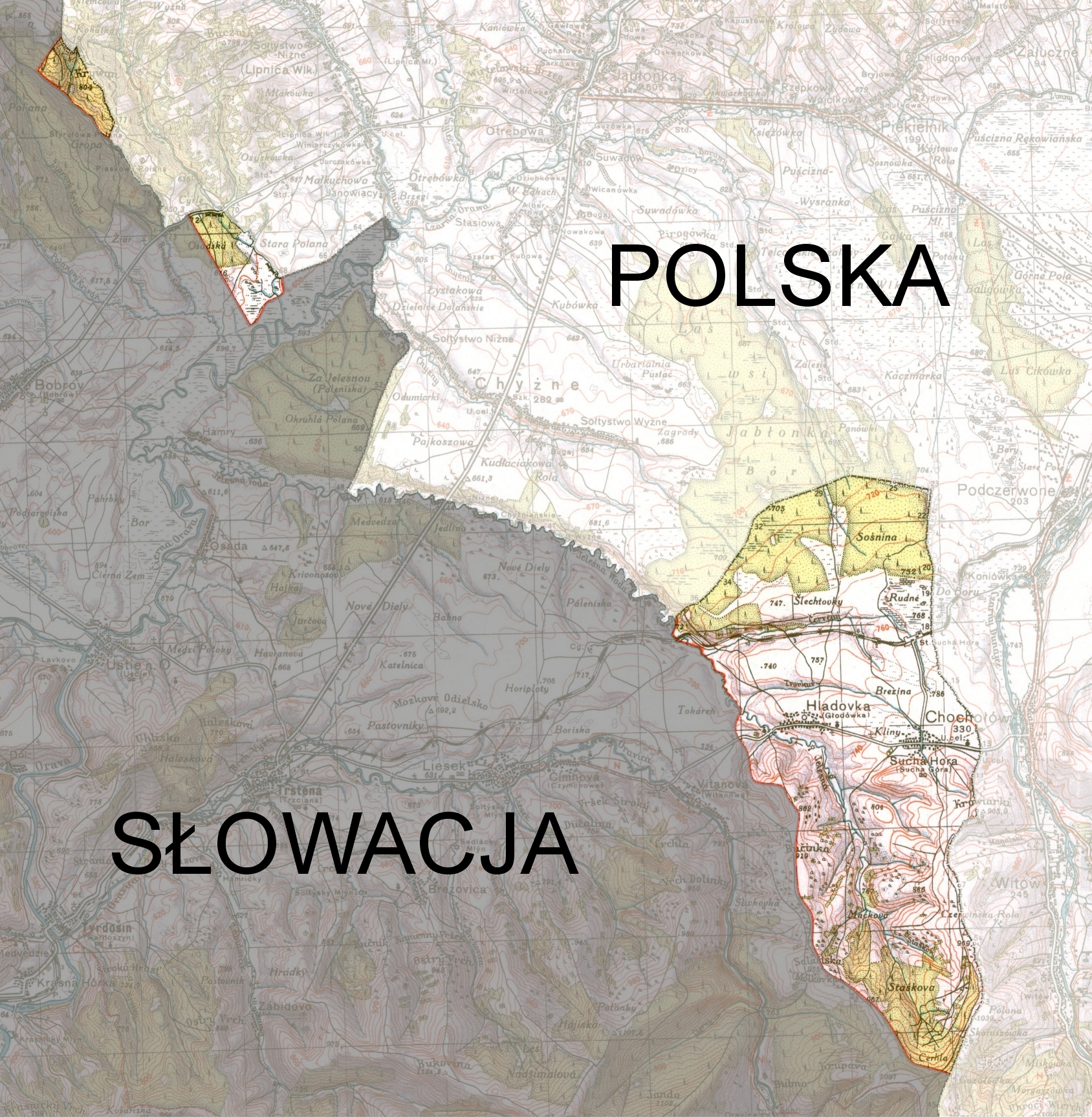 Area of Orawa annexed to Poland in 01.12.1938.